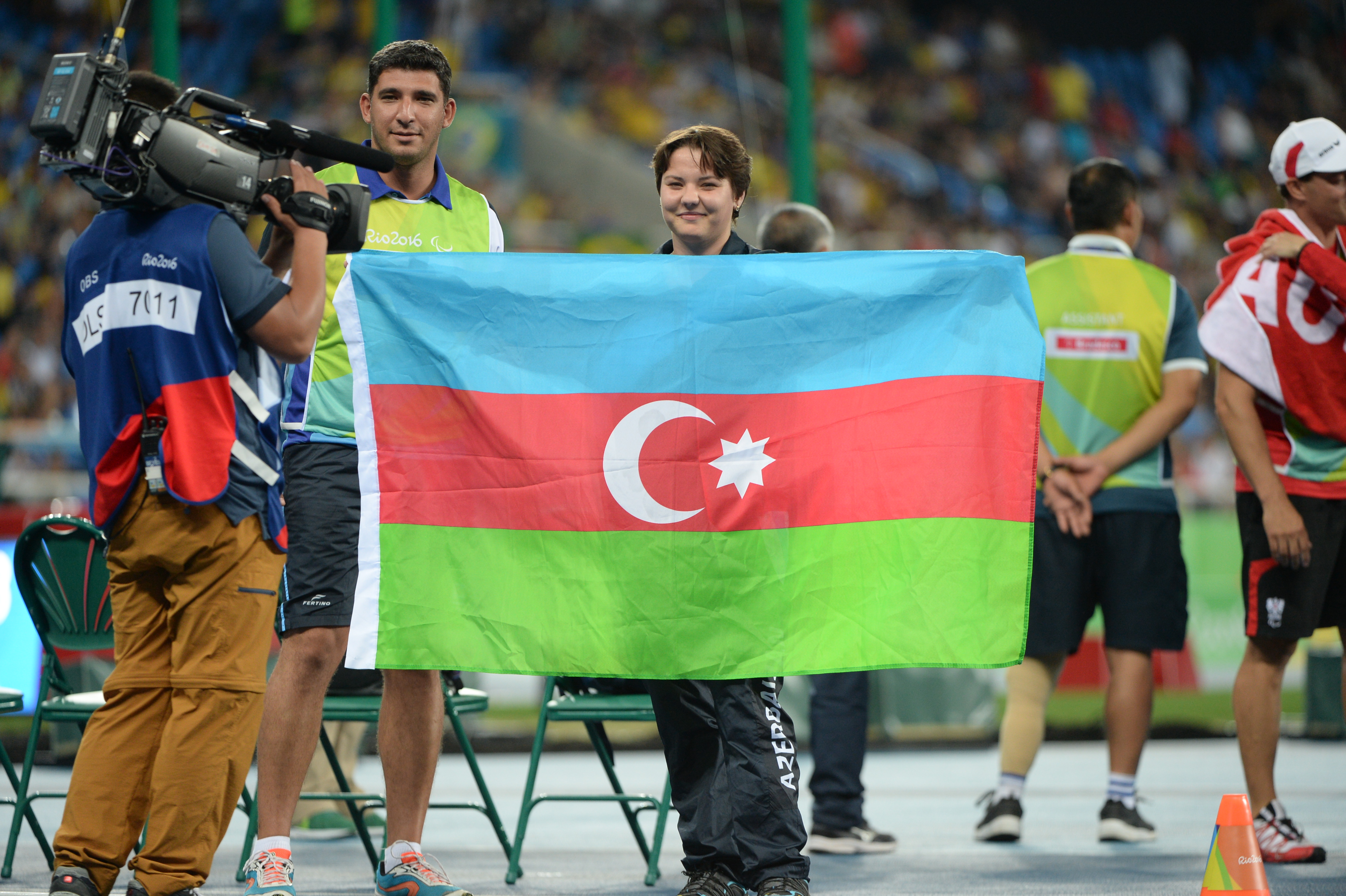 Irada Aliyeva. Athletics at the 2016 Summer Paralympics – Women's javelin throw F13